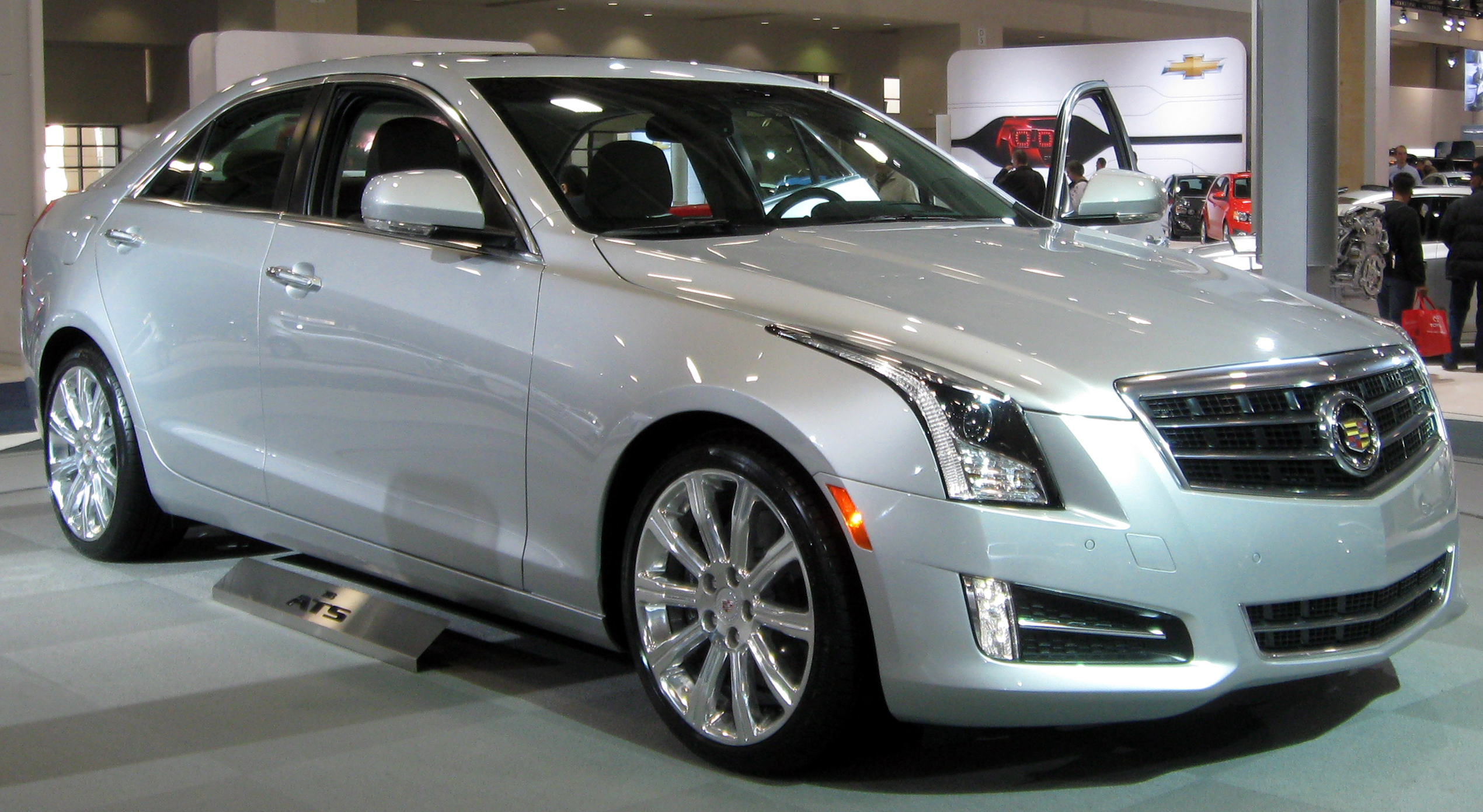 A 2013 Cadillac ATS in Radiant Silver Metallic shown with optional 18" x 8" forged polished aluminum wheels on display at the 2012 Washington Auto Show in Washington, D.C., United States.